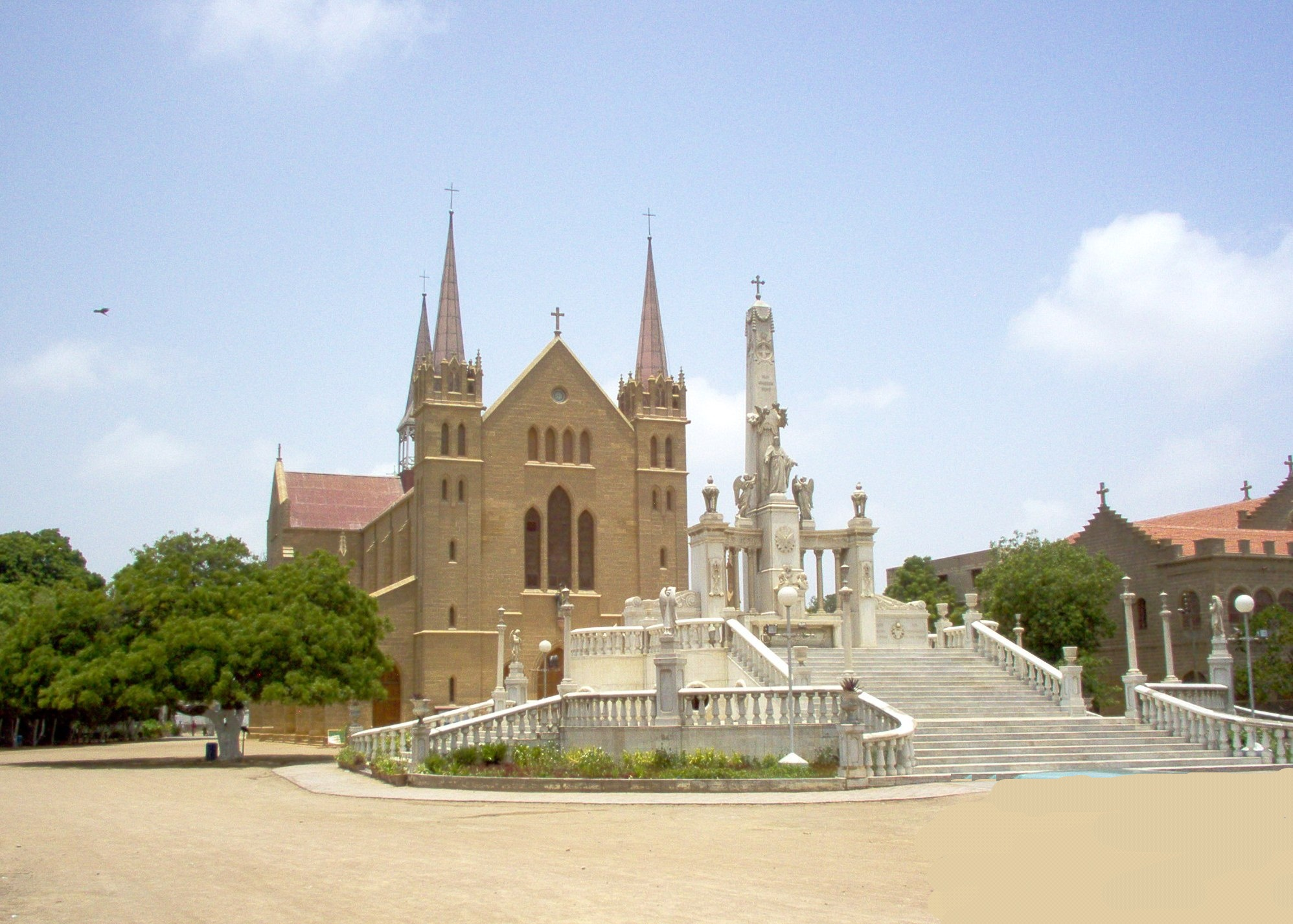 St. Patrick's Cathedral in Karachi; designed by Karl Wagner.